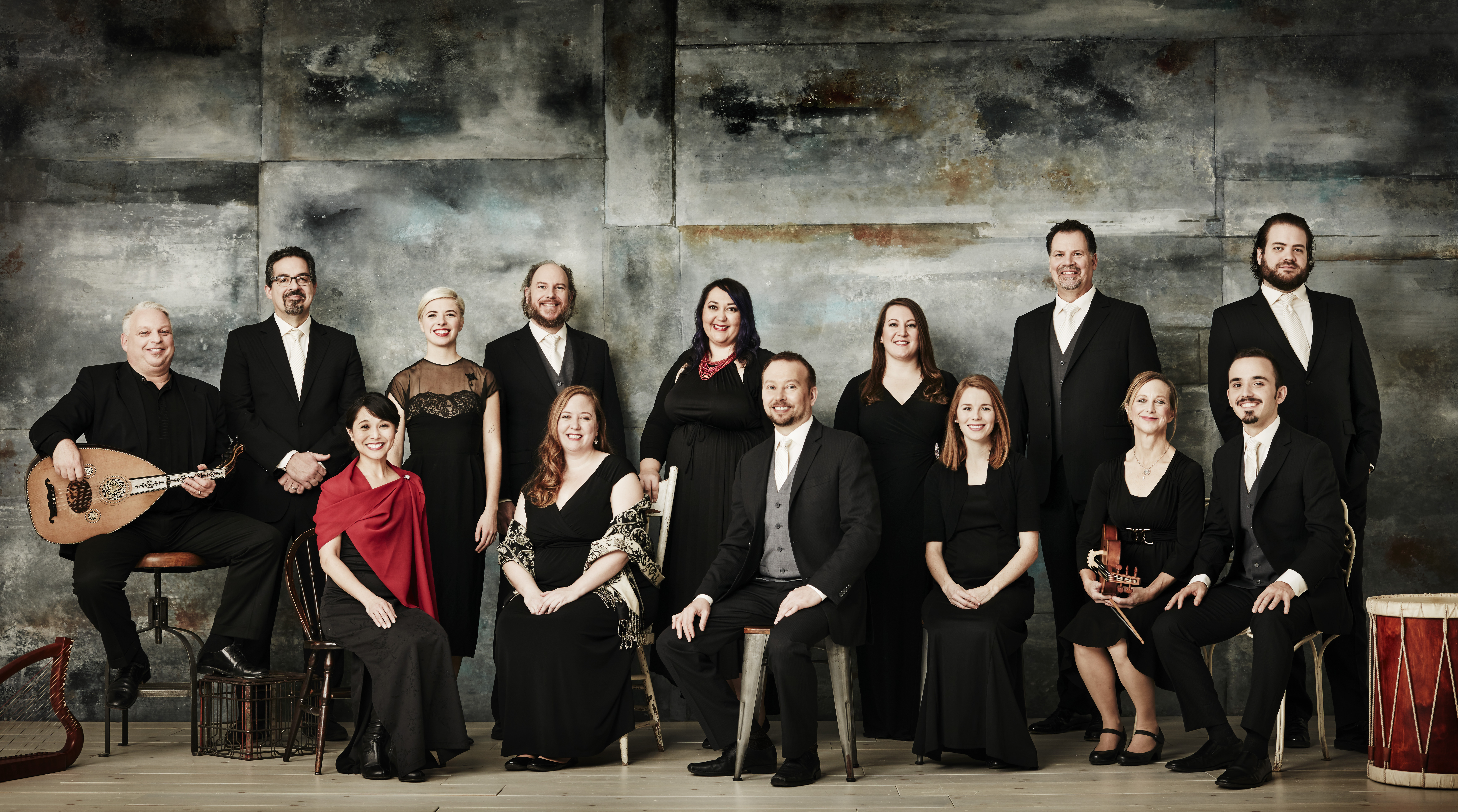 The Rose Ensemble, photography by Michael Haug